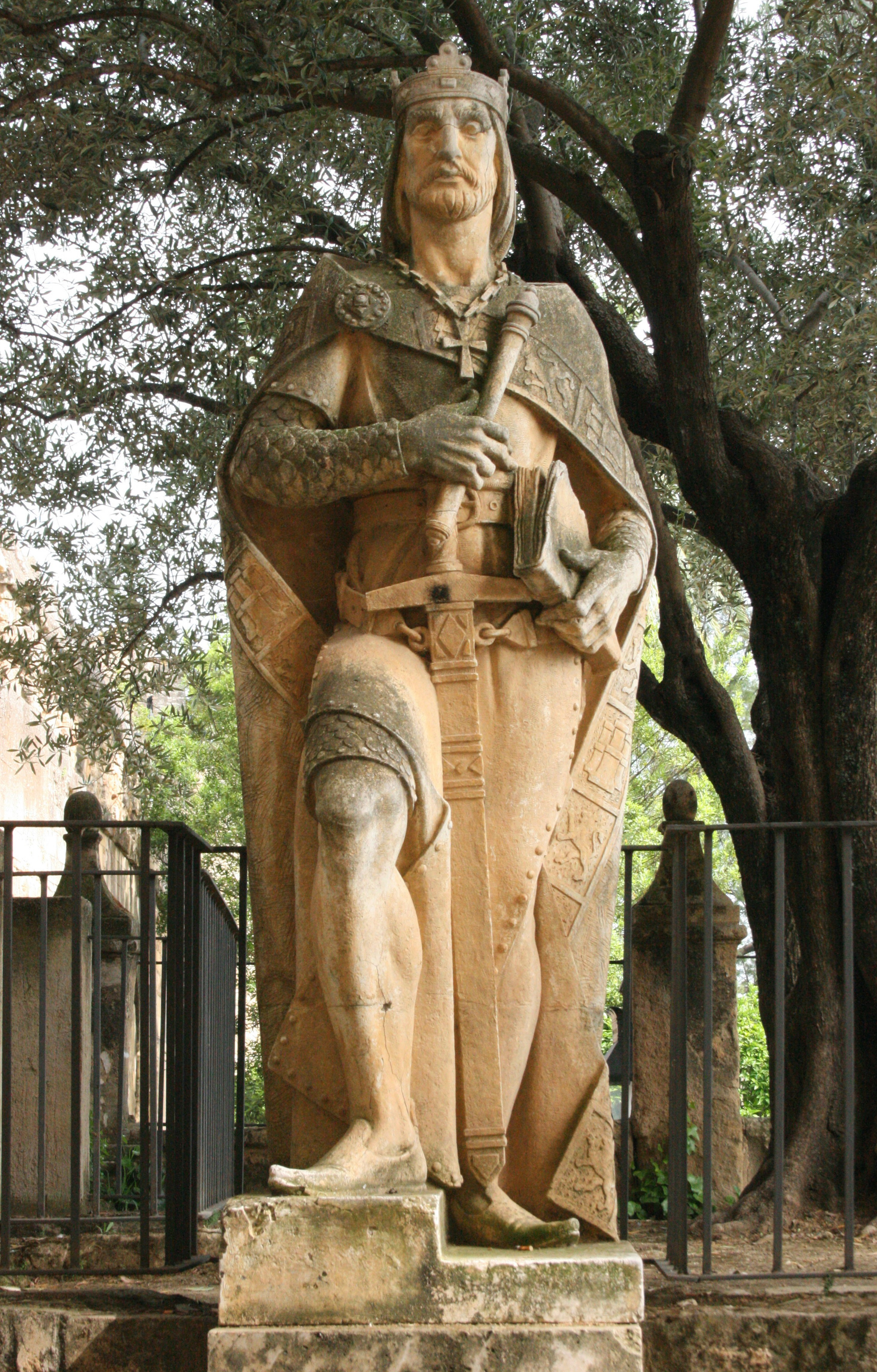 Statue of king Alfonso X the wise in the alcazar of Cordoba, Spain